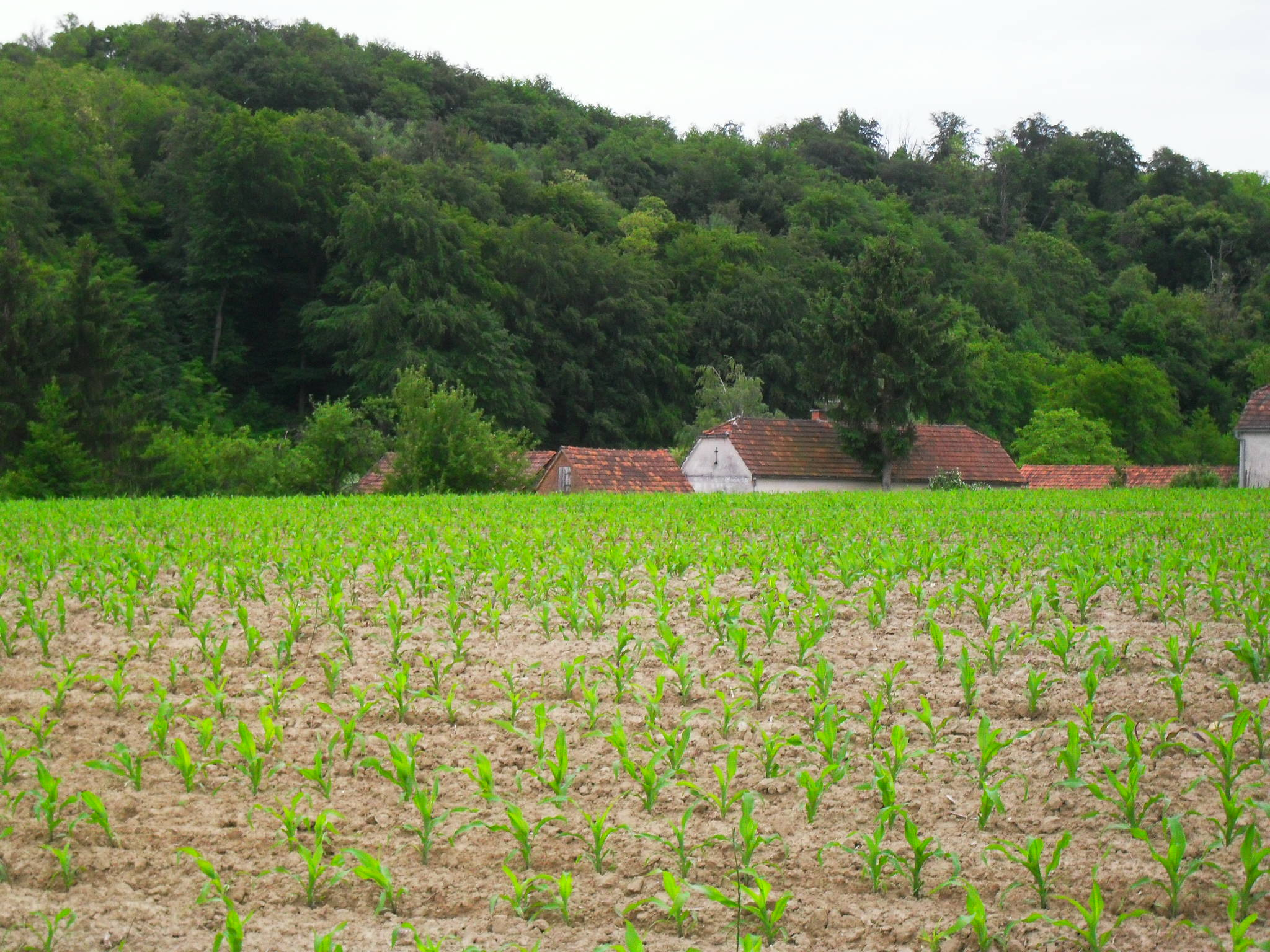 Houses in Kapelščak near Vrhovljen, under the vineyards. Međimurje County, Croatia.